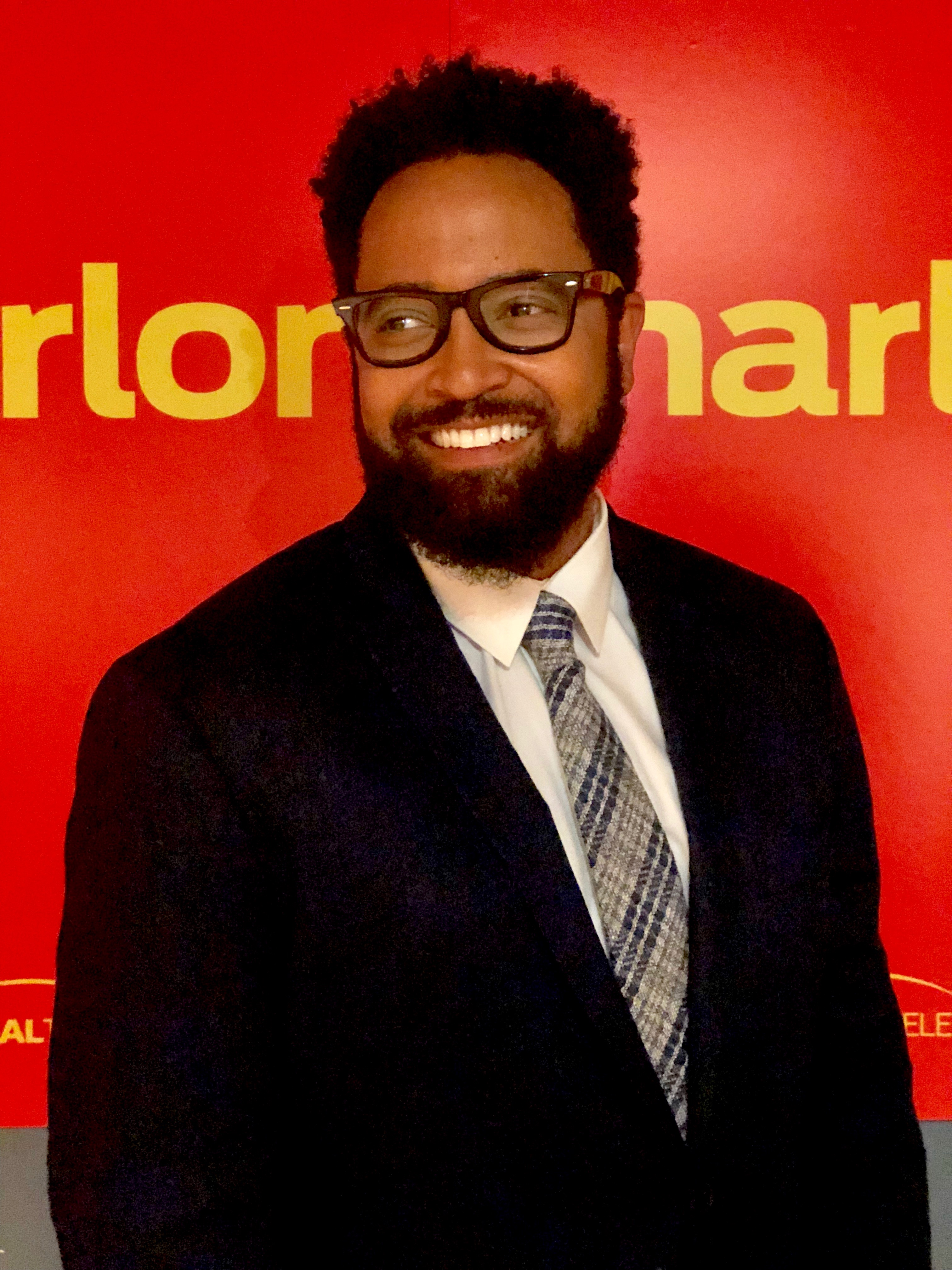 Photo of Diallo Riddle at the Marlon FYC event 2018